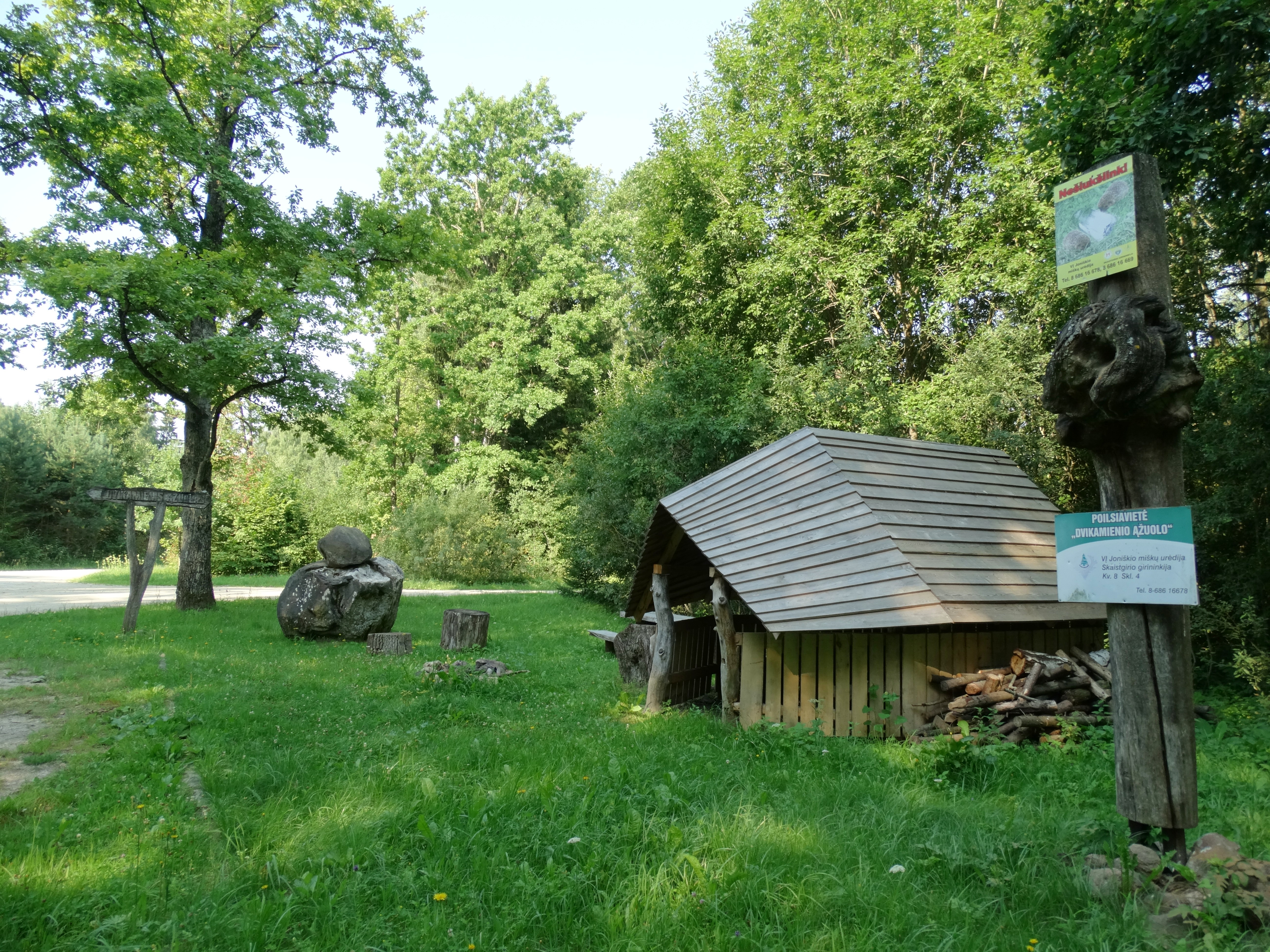 Reibiniškės forest, Joniškis District, Lithuania